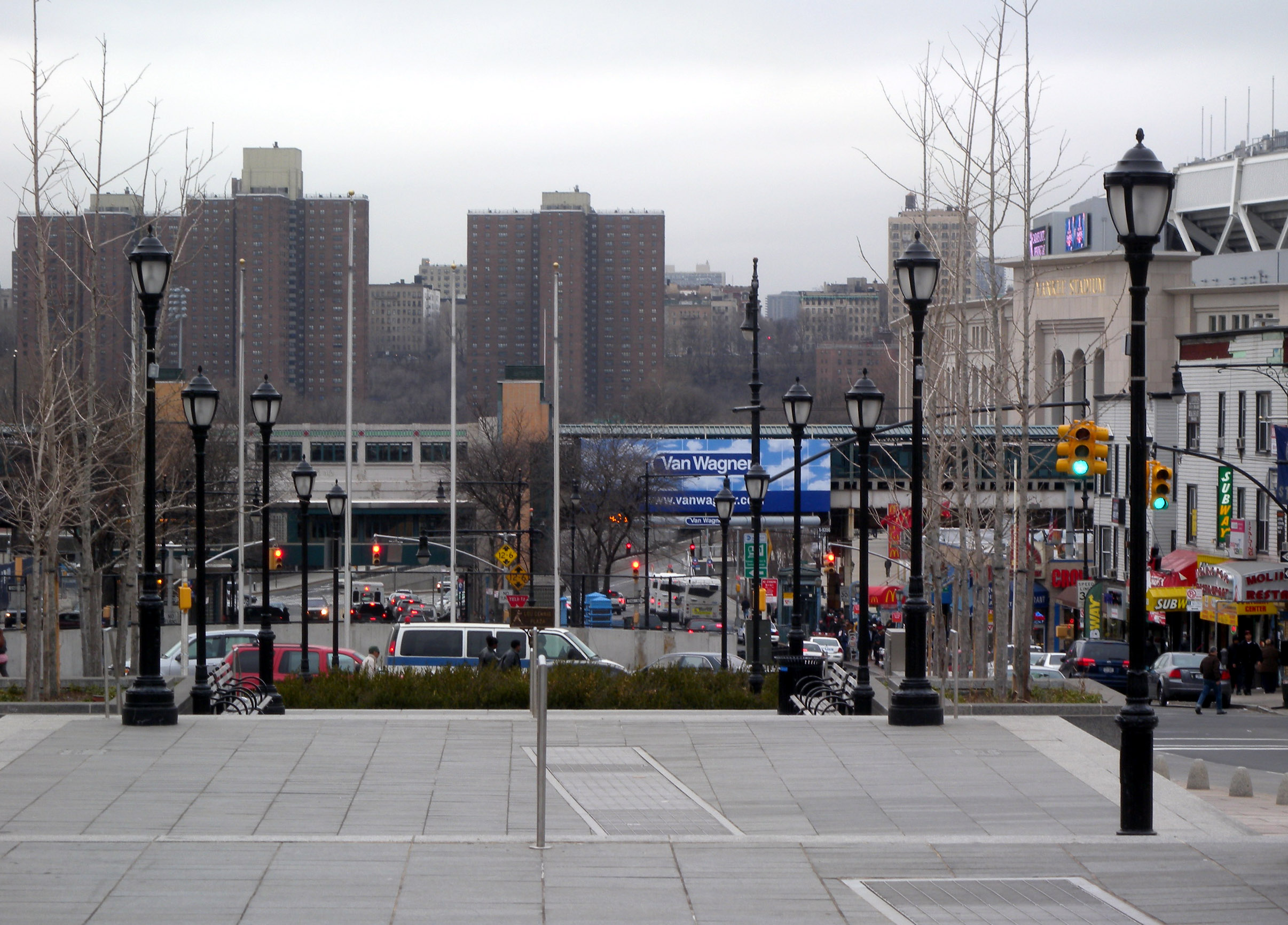 Looking west, full zoom, from Grand Concourse down 161 Street at en:161st Street – Yankee Stadium (New York City Subway) on a cloudy afternoon. EXIF location is too far west due to photographer's error.